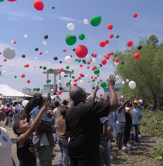 Balloons are released at the annual Mary Meachum Freedom Crossing celebration in St. Louis. Photo by Lynn DeLearie